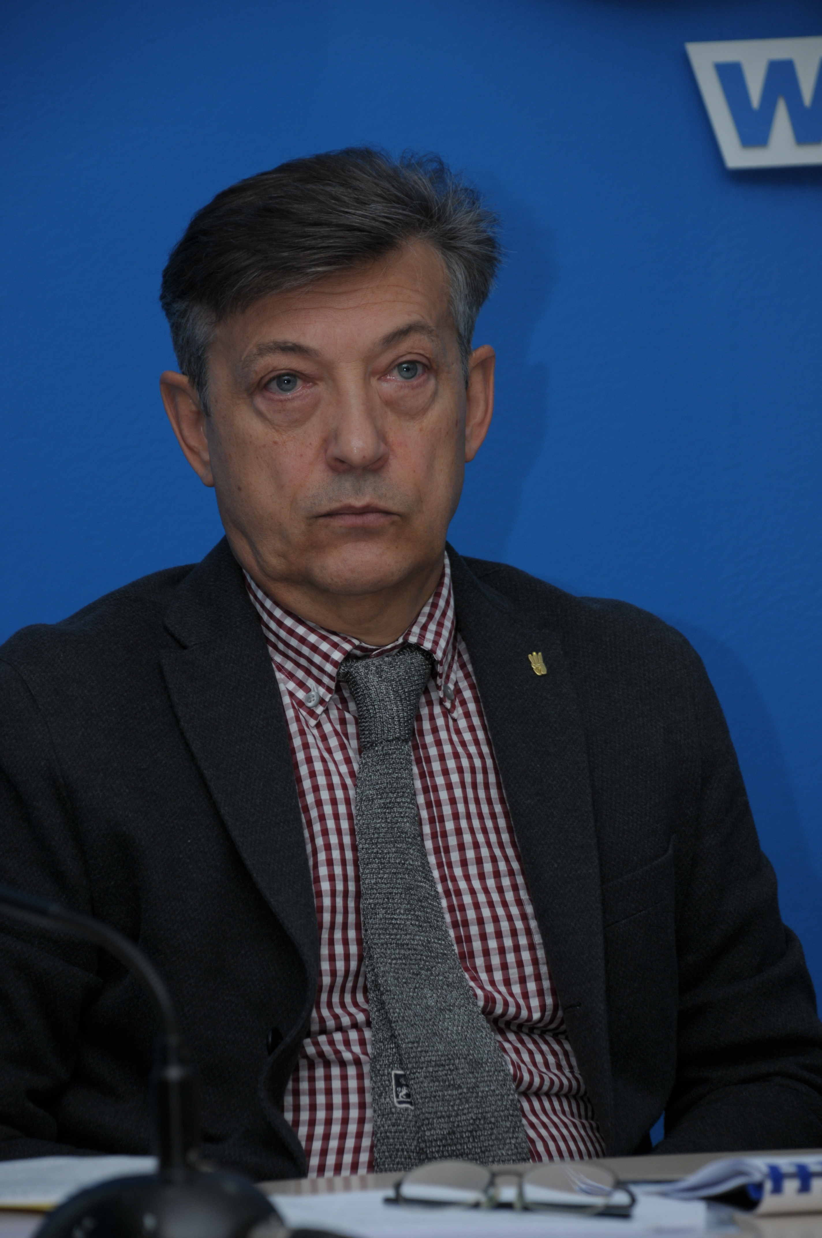 Oleksandr Bondar, Ukrainian politician, member of the Ukrainian Verkhovna Rada